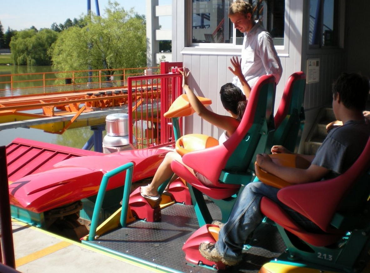 Behemoth , montagnes russes à Canada's Wonderland